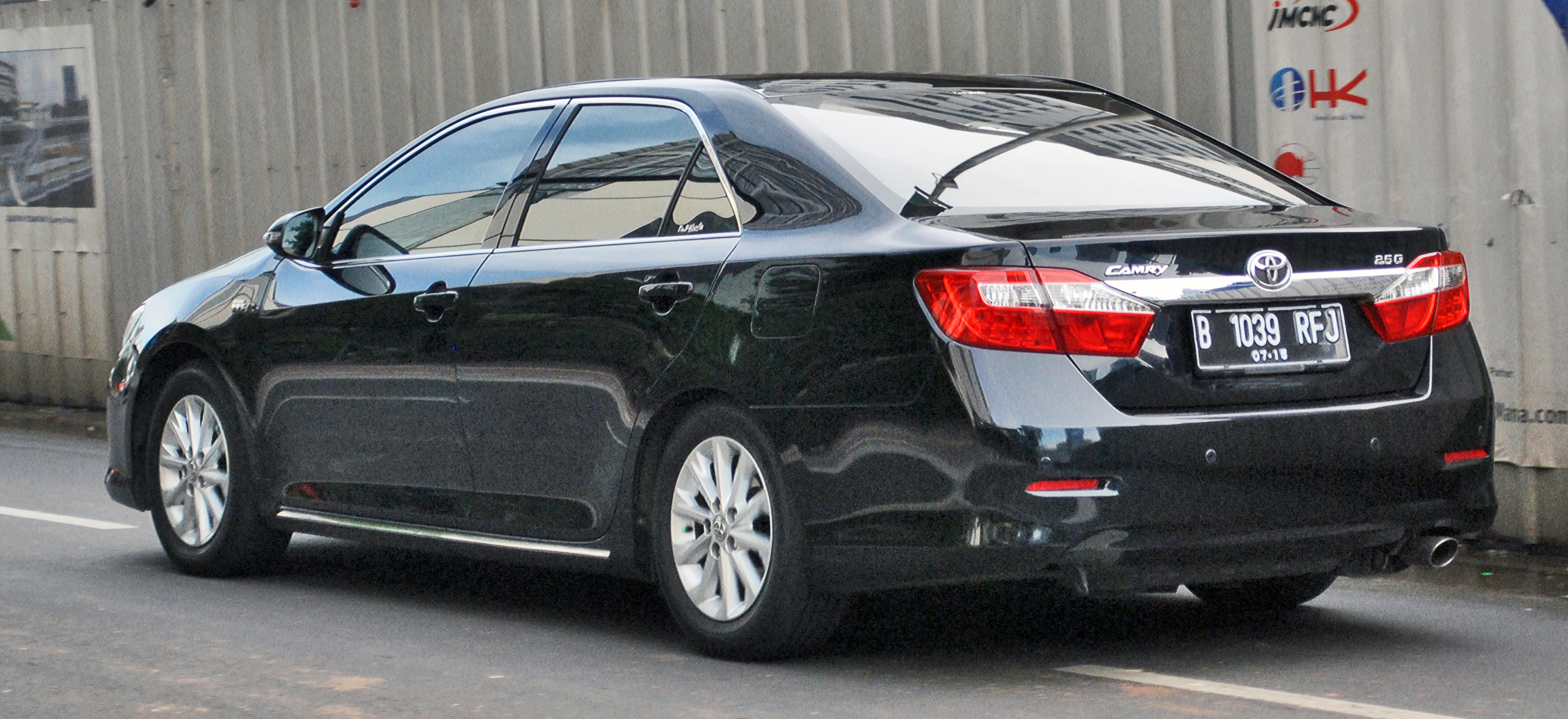 Rear view of Toyota Camry 2.5 G (XV50) passing through MH Thamrin Road, Jakarta, Indonesia.